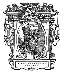 Illustratio from "Le Vite" by Giorgio Vasari, edition of 1568. For the artist portrayed see filename